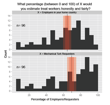 This is a graph indicating the percentage of both offline and online employers in which Turkers think employ fair treatment.